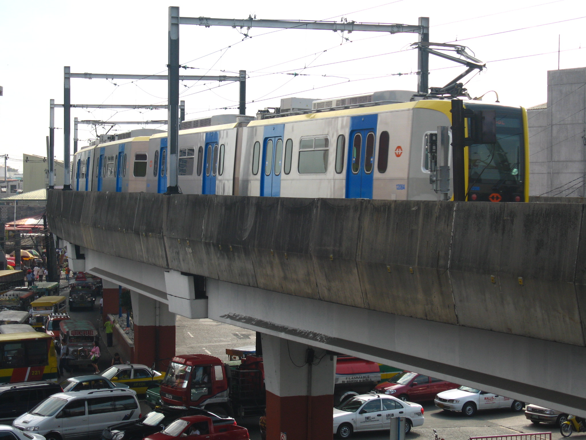 Third generation train of the Manila Light Rail Transit System.